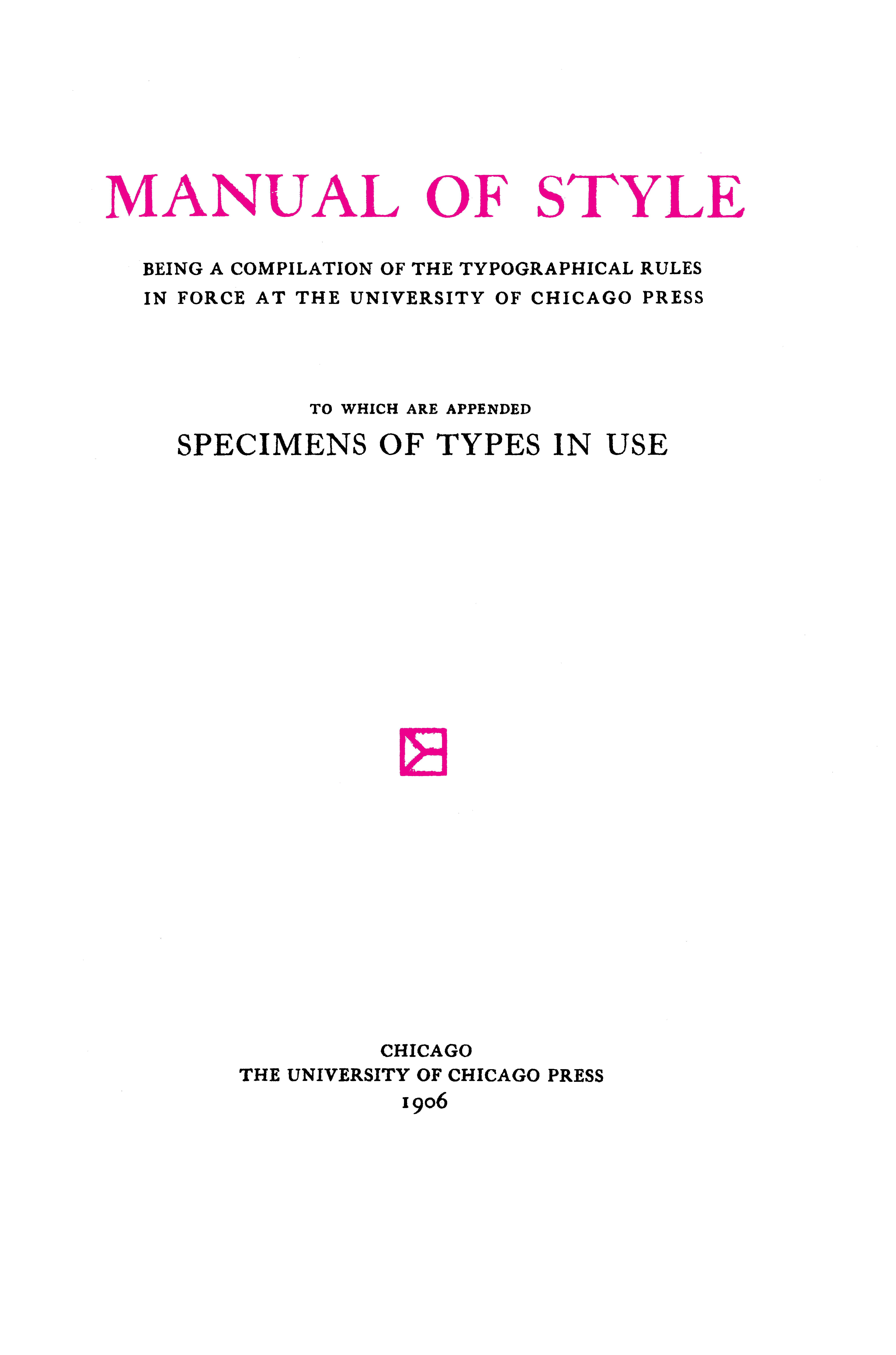 Cover Image of Editions 9-17 of the Chicago Manual of Style